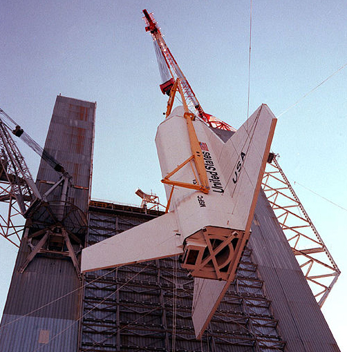 Date: 01.01.1977 Title: Pathfinder Simulator Is Hoisted into MSFC Dynamic Test Stand Description: MSFC, Ala. -- The Space Shuttle Orbiter simulator is hoisted into the giant dynamics test stand at NASA's Marshall Space Flight Center, Huntsville, Ala. The simulator was built at the Marshall Center for use in pathfinder activities, such as checking roadway clearances, crane capabilities and fits within structures. It is the same size, shape and weight of an actual Orbiter. ID: MSFC-7885689 Credit: NASA Marshall Space Flight Center (NASA-MSFC).